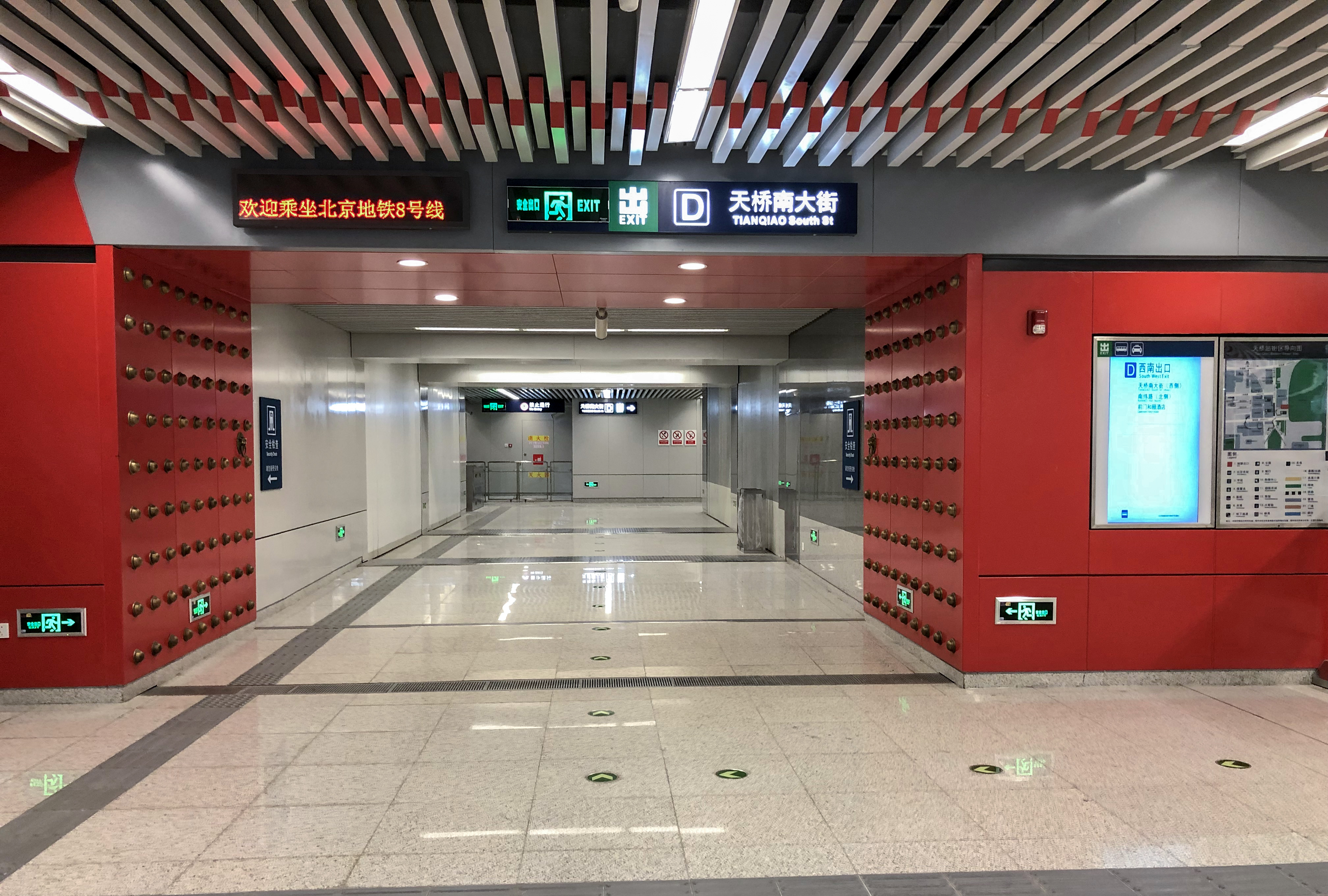 And this one points to the lower ground of Tianqiao Arts Center.